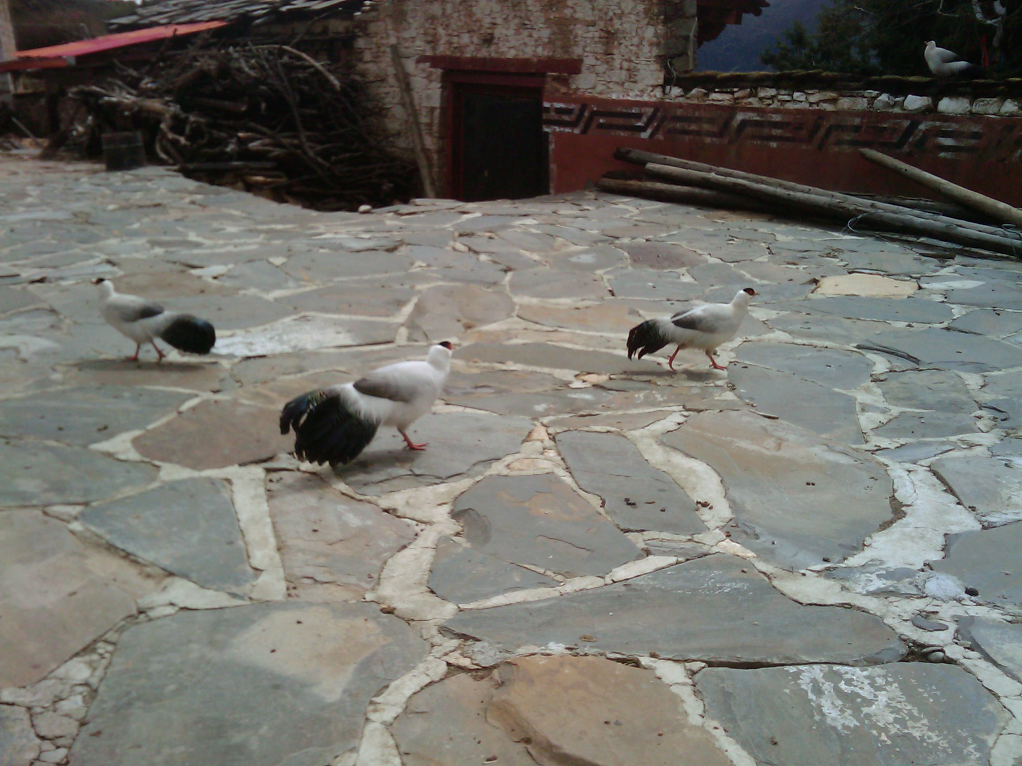 Crossoptilon crossoptilon at Daocheng, Sichuan, China